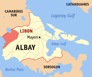 Locator map of Libon in Albay, Philippines.